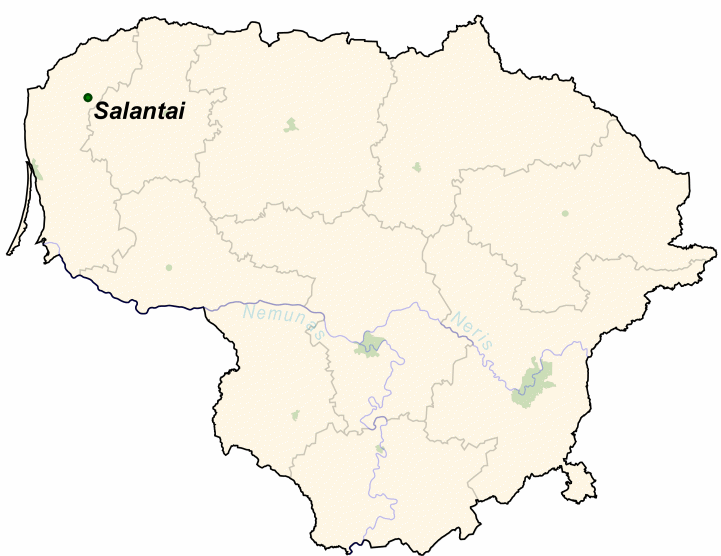 Salantai on the map of Lithuania